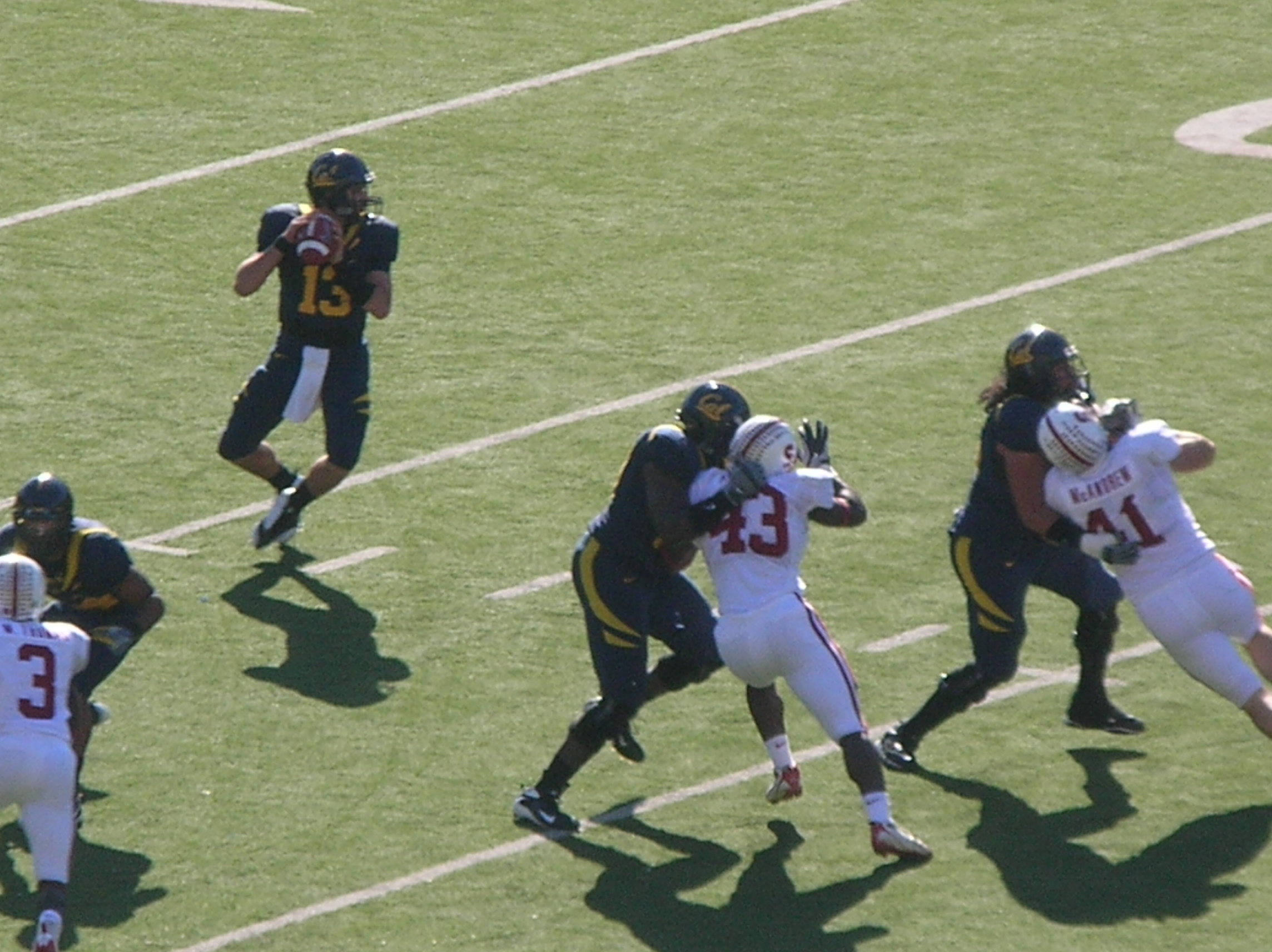 Cal on offense during the 2008 Big Game. The Golden Bears won 37-16.